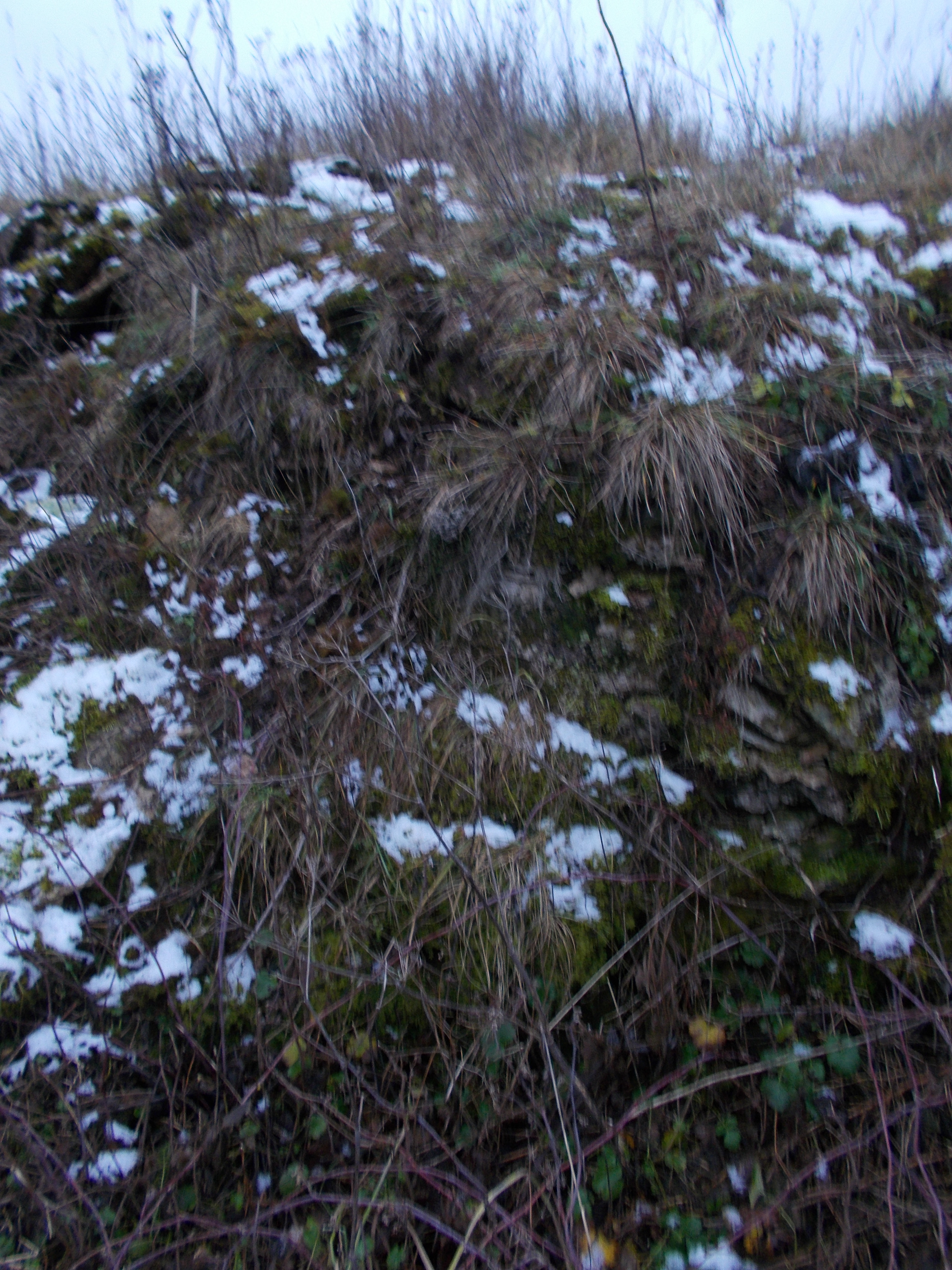 The upper edge of once greater rock face in an old quarry that is the stratotype of rebala Member limestones.